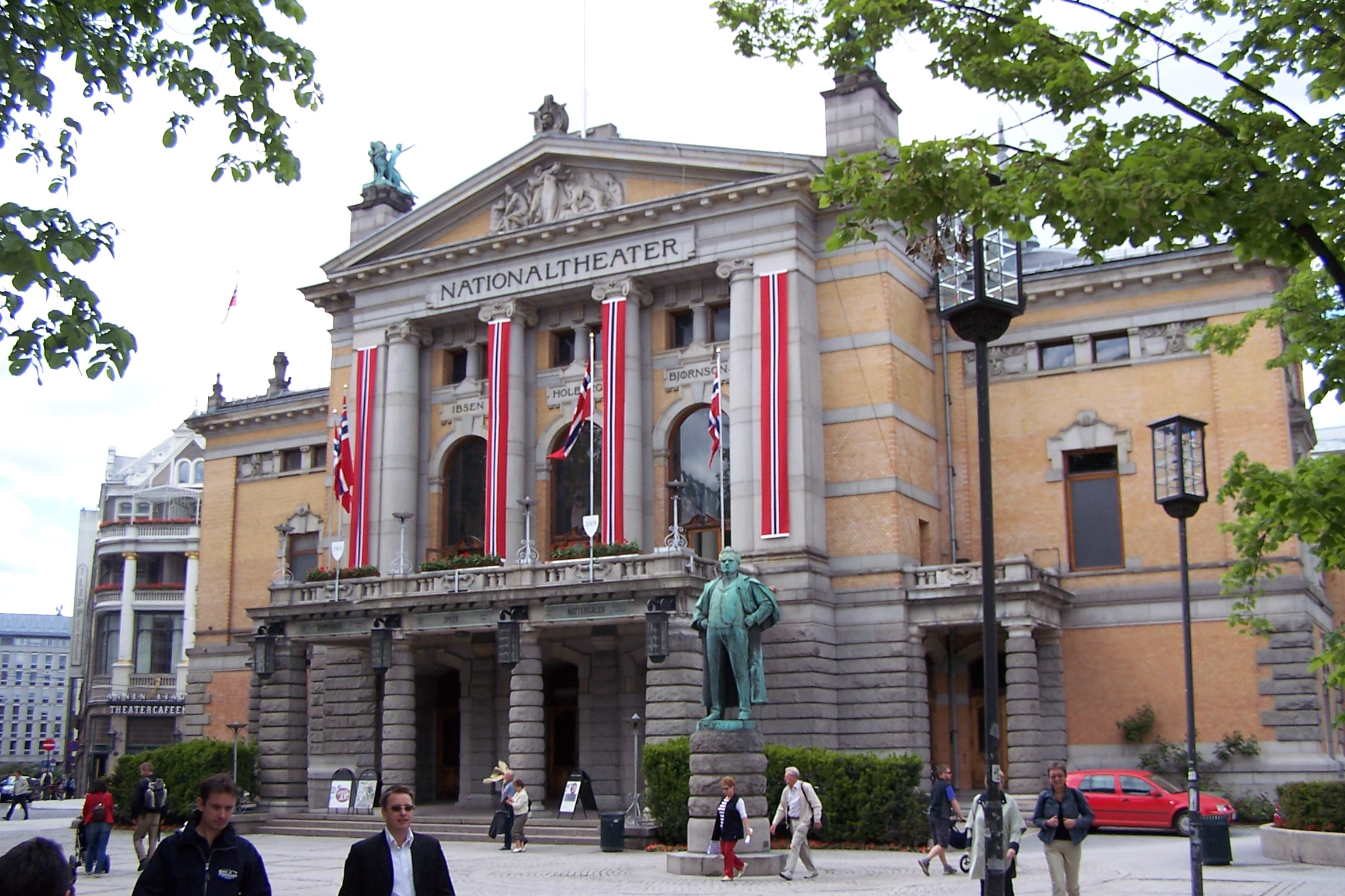 National Theatre in Oslo, Norway.